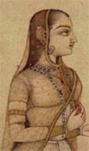 Maratha Queen Maharani Tarabai, who led Marathas after death of his husband Rajaram.